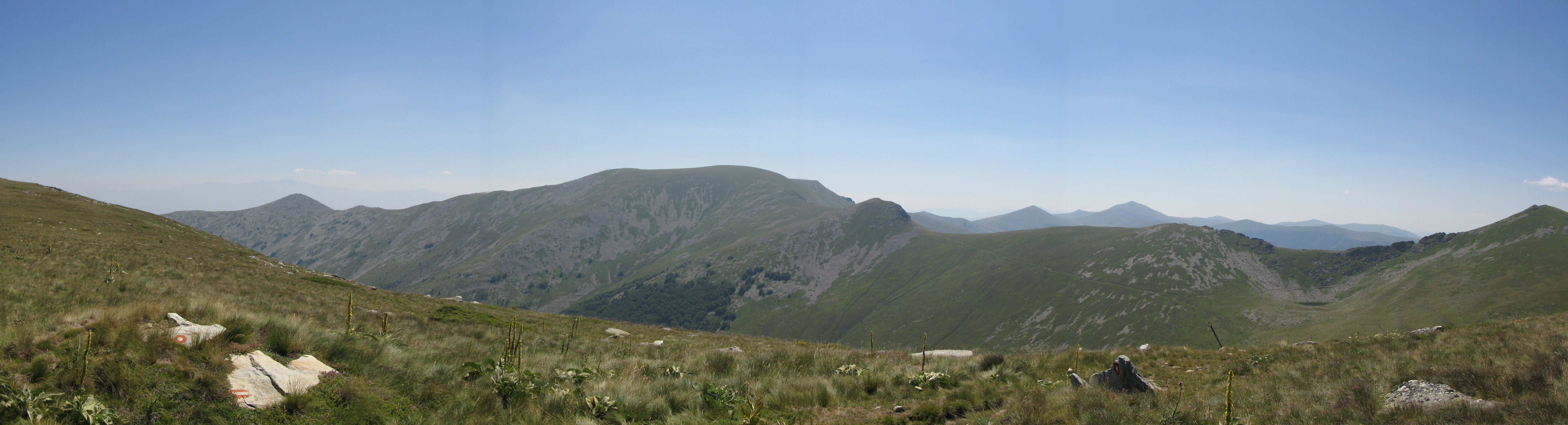 Baba mountain, Macedonia.